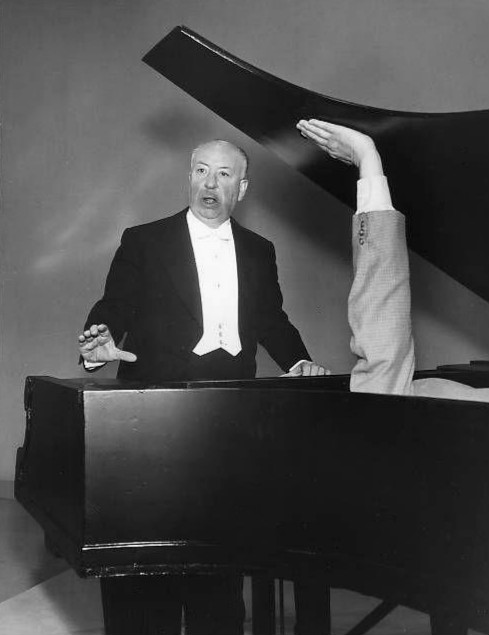 Photo of Alfred Hitchcock promoting the television program Alfred Hitchcock Presents.